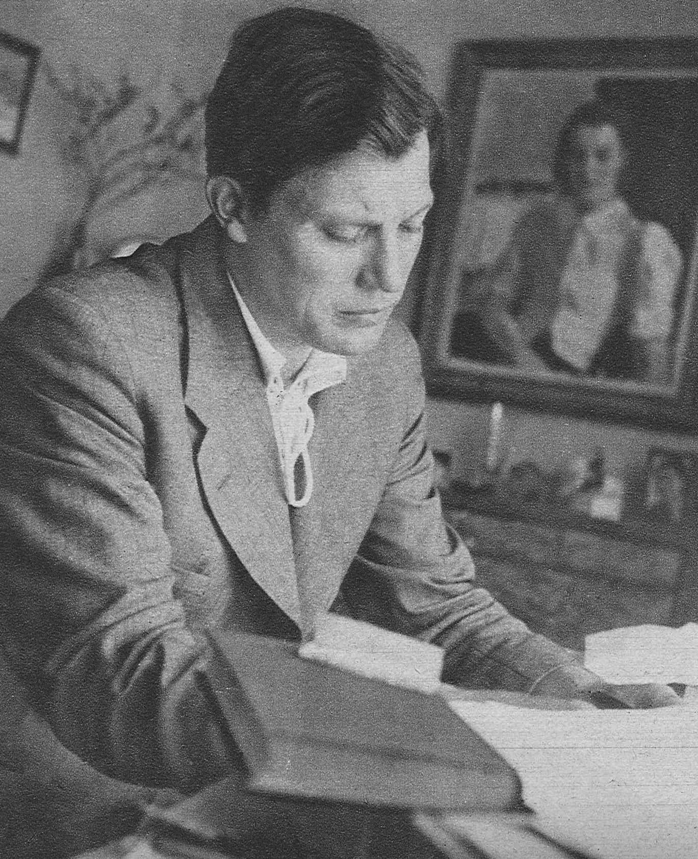 Harry Martinson (1904-1978), Swedish author and poet; reciever of the Nobel Prize in Literature in 1974.